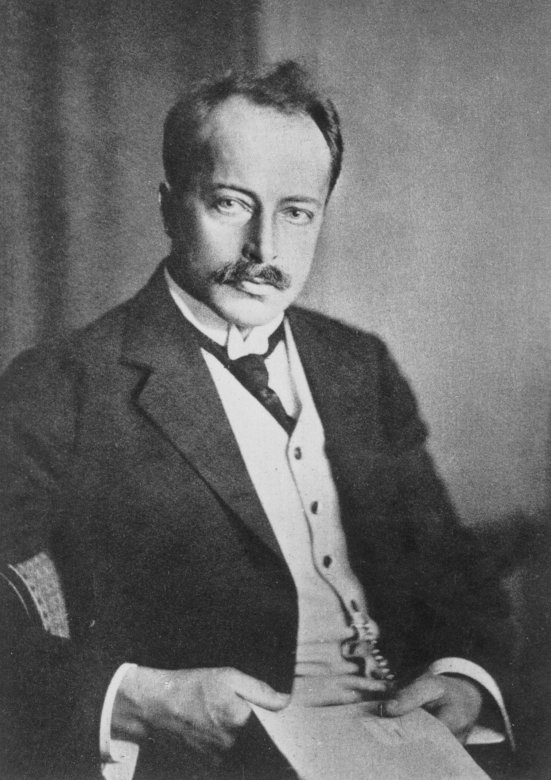 Max von Laue